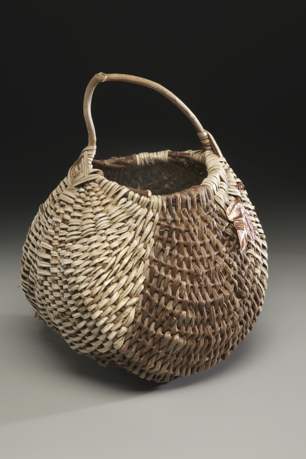 A kudzu basket made in the Appalachian Oriole style by basketmaker Matt Tommey.